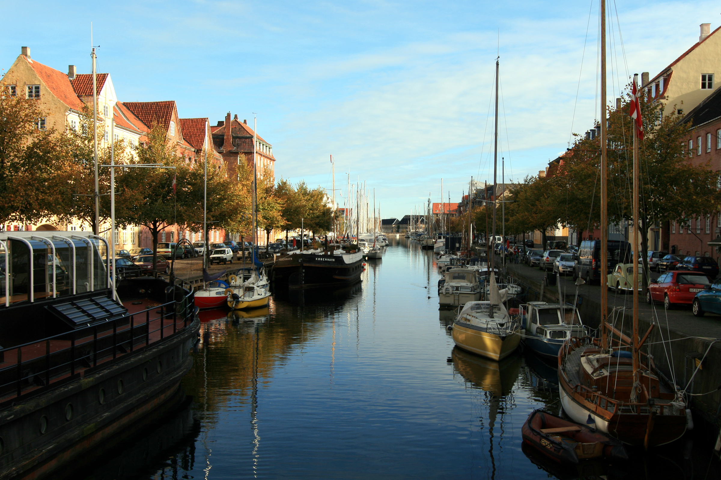 Christianshavns Kanal, Copenhagen, in morning light.